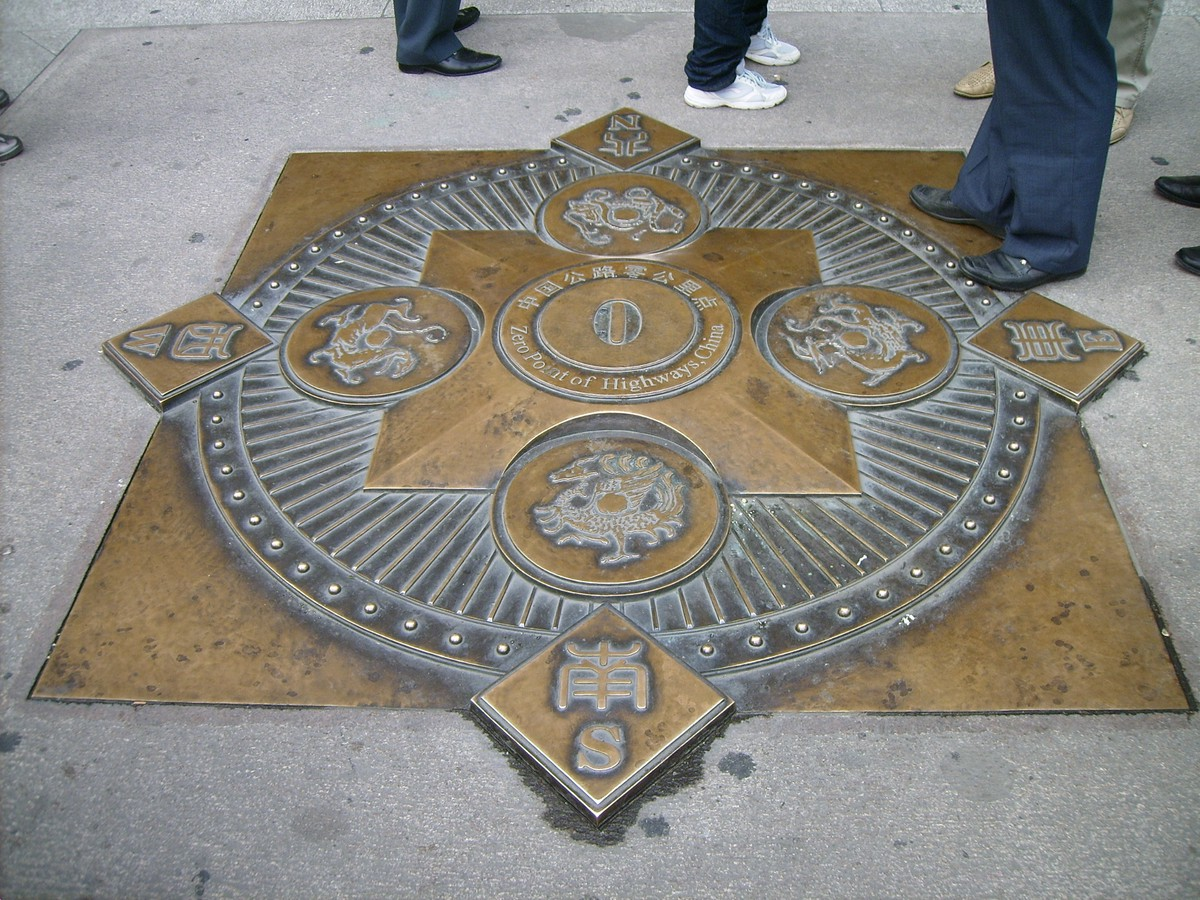 Statue of 0 km of China